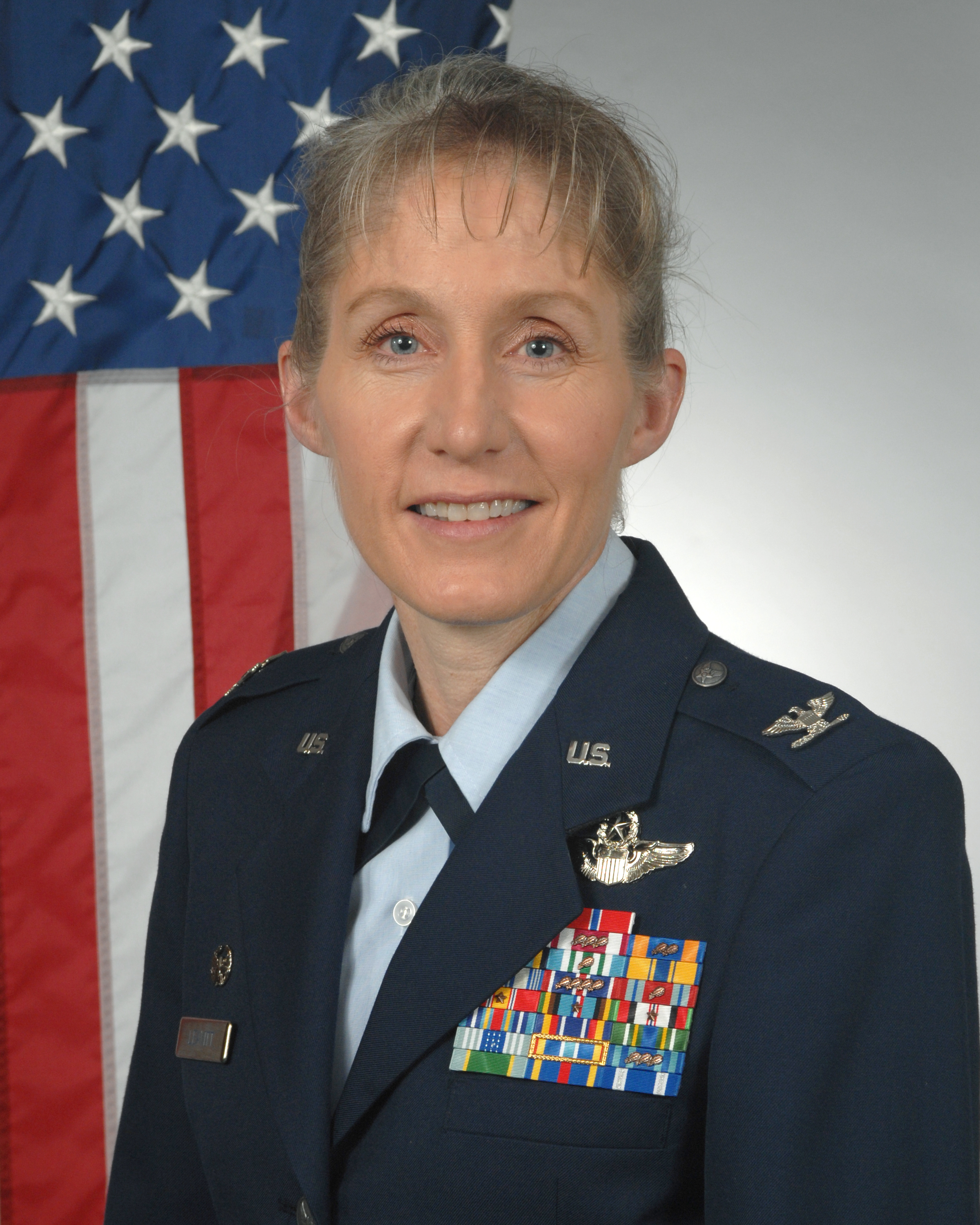 Jeannie Leavitt, Colonel, USAF